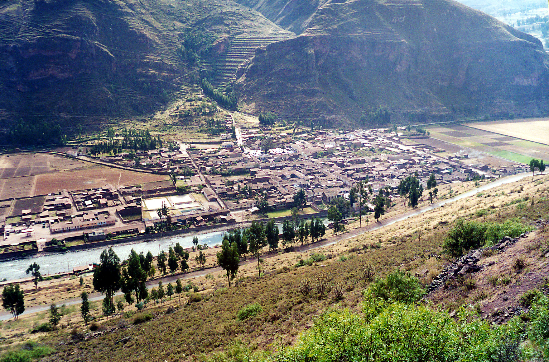 Pisac, north of Cusco, Peru. The photo was taken by Håkan Svensson (Xauxa) in 2002.